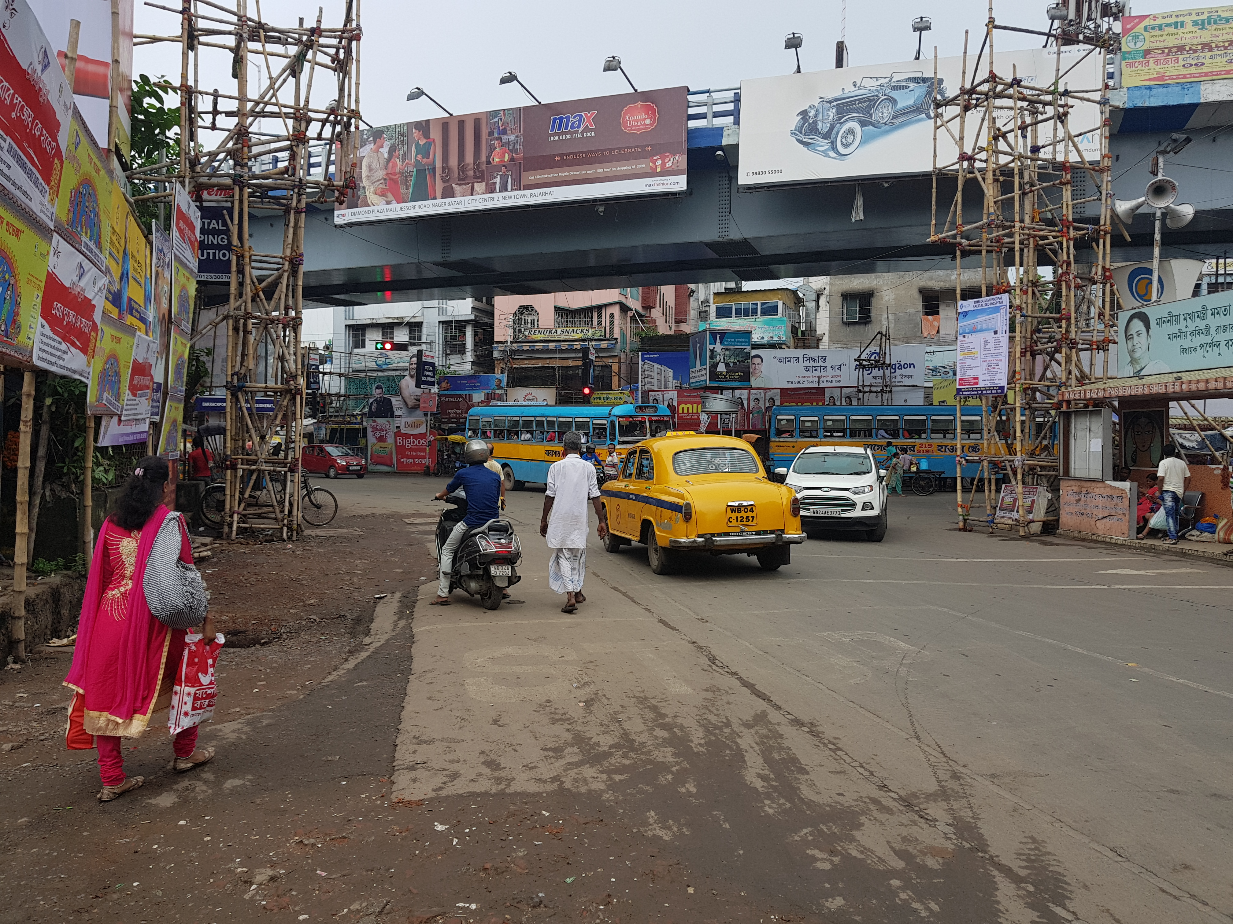 This is an image of Nagerbazar locality in Dum Dum area of Kolkata